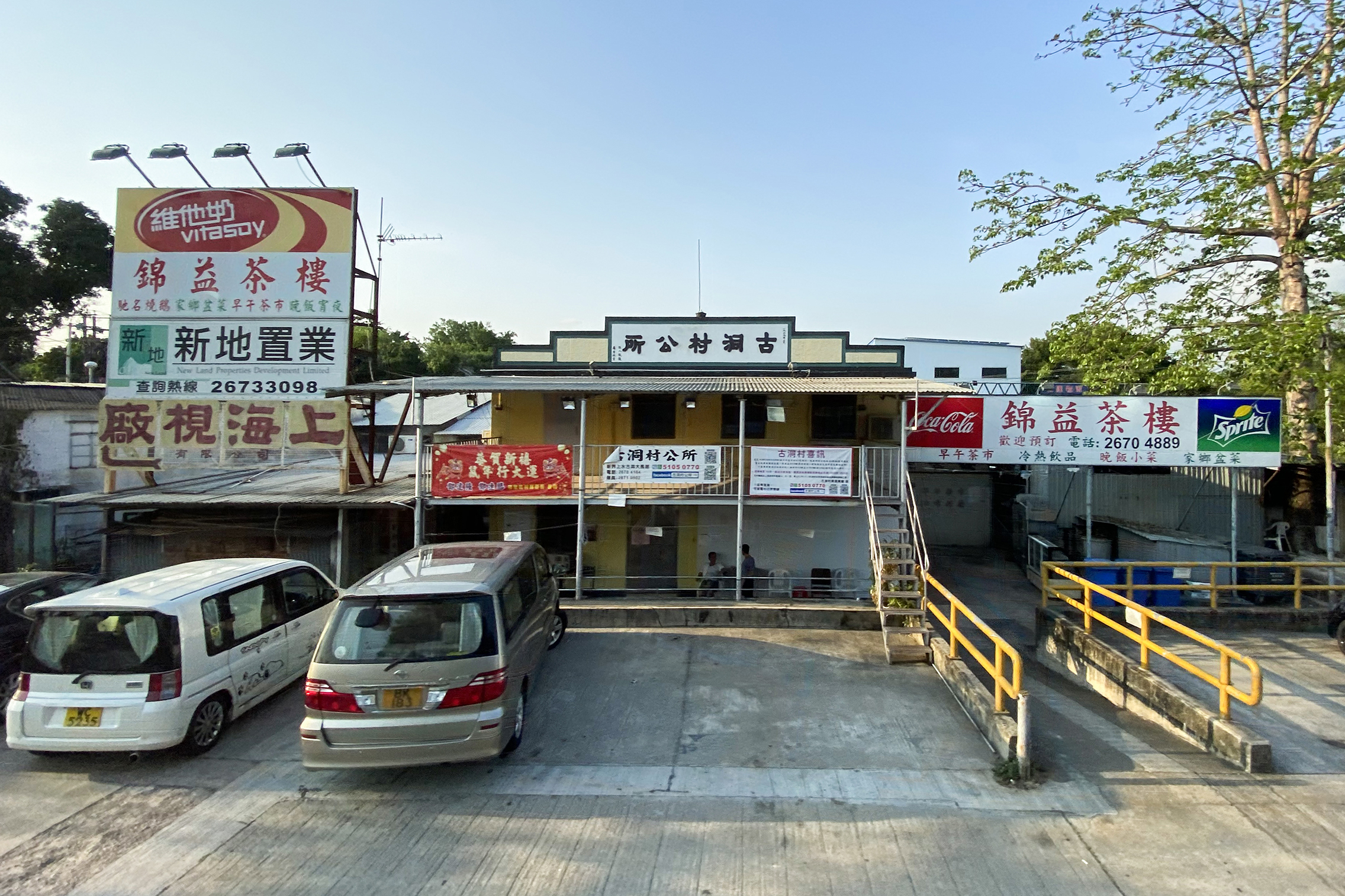 Kwu Tung Village office